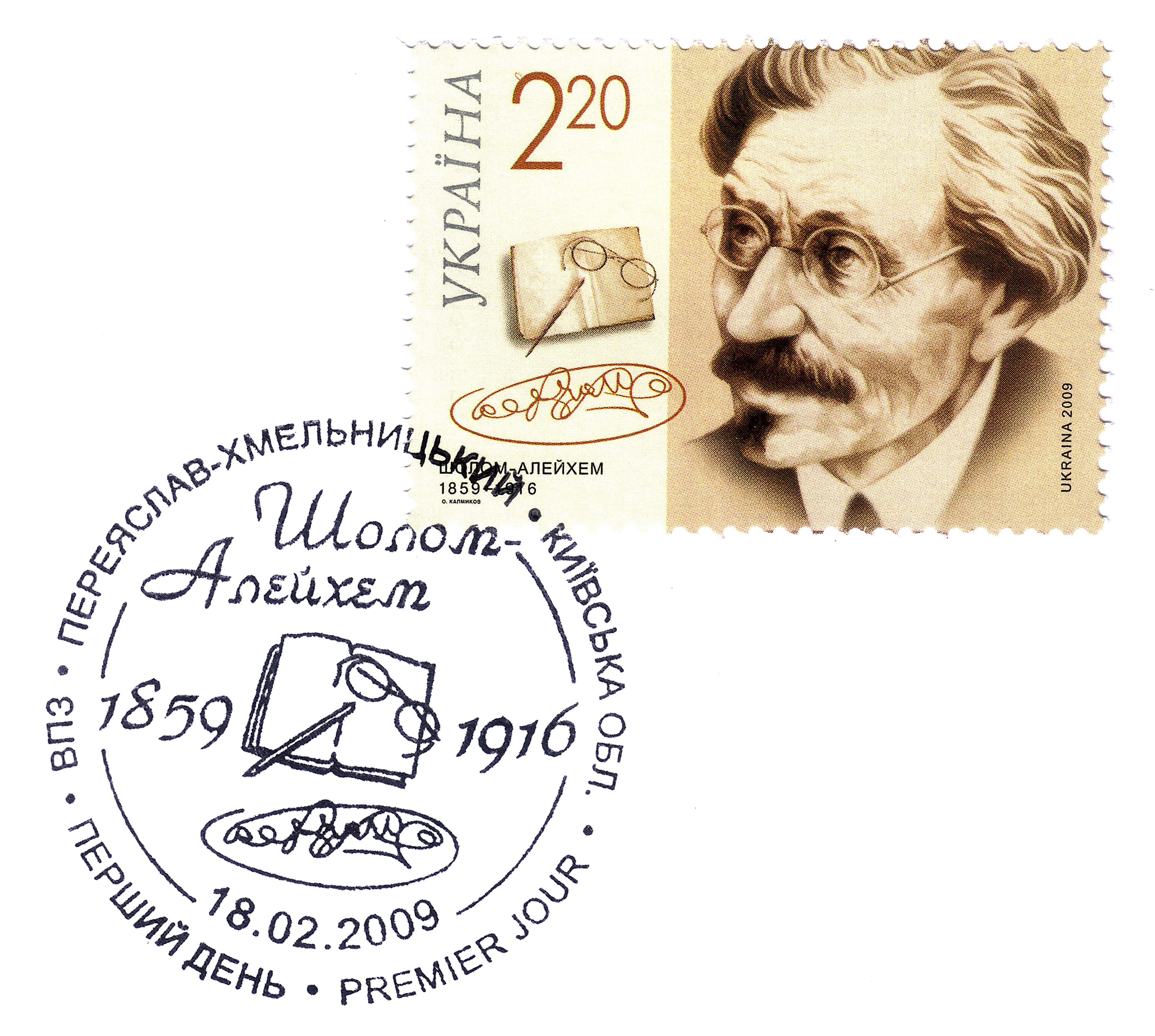 Sholom Aleichem, on Stamp of Ukraine